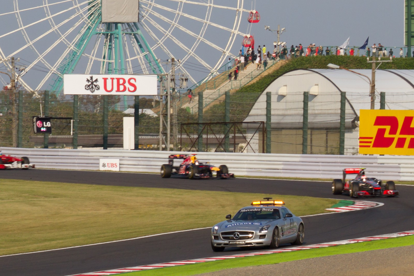 Formula One 2011 Rd.15 Japanese GP: Safety Car with Jenson Button (McLaren) and Sebastian Vettel (Red Bull).